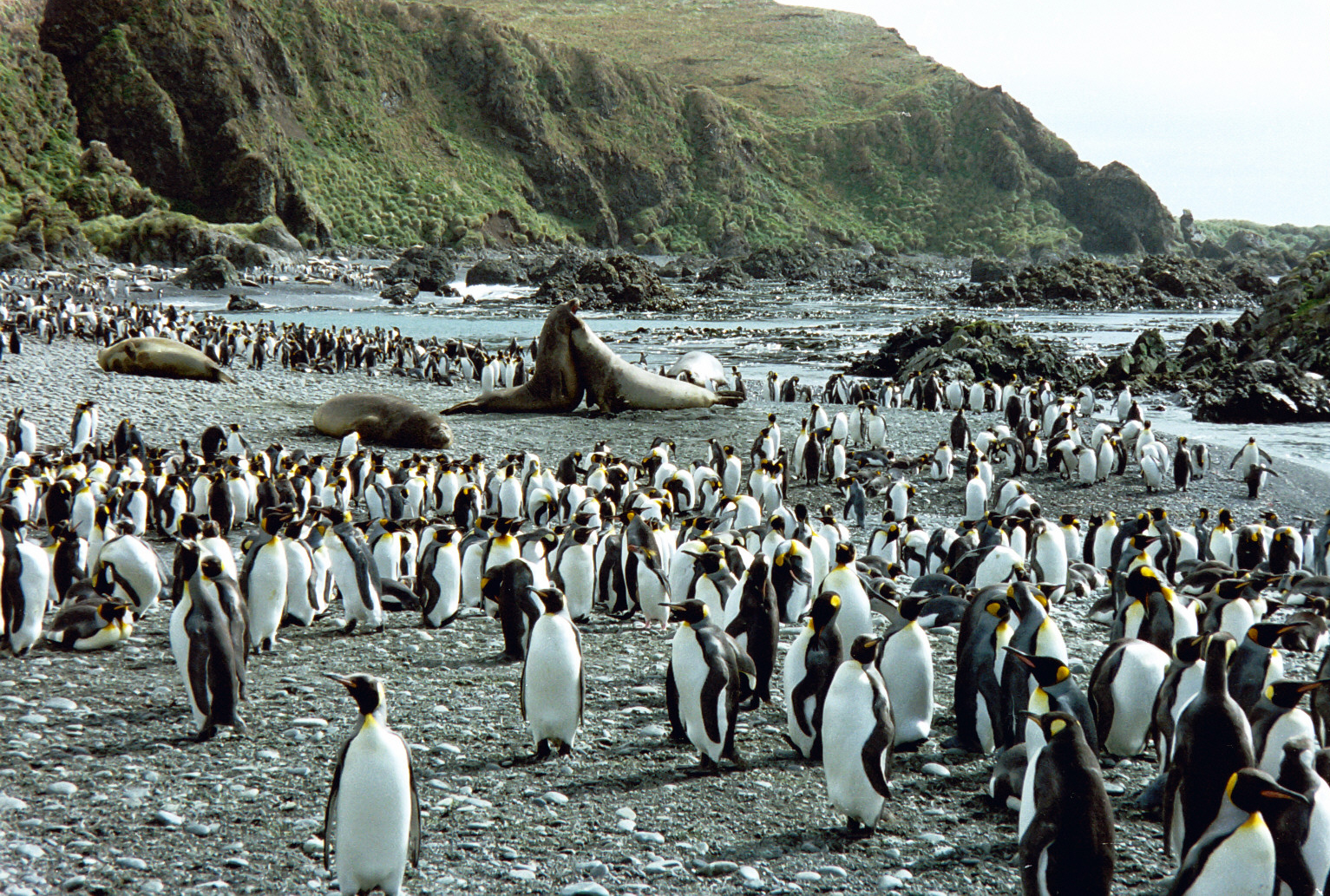 East coast beach - Macquarie Island